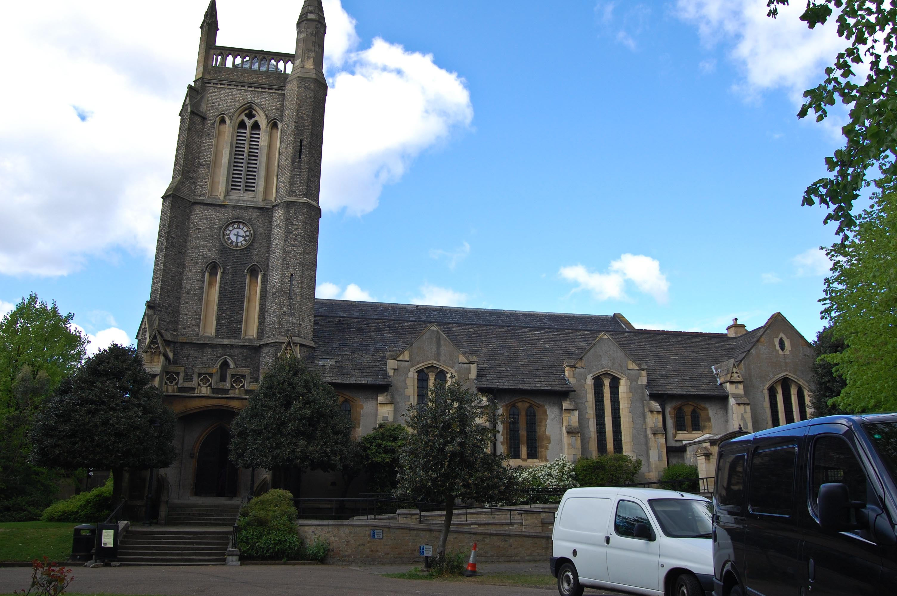 Parish church of St John the Baptist, Leytonstone High Road, London E11, seen from the south from Church Lane